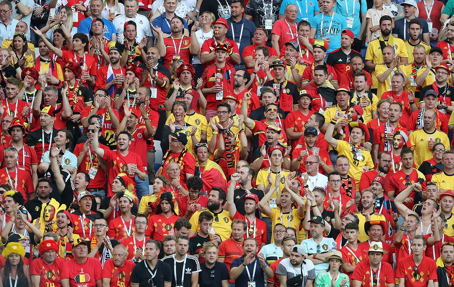 2018 FIFA World Cup Match 45, England v Belgium